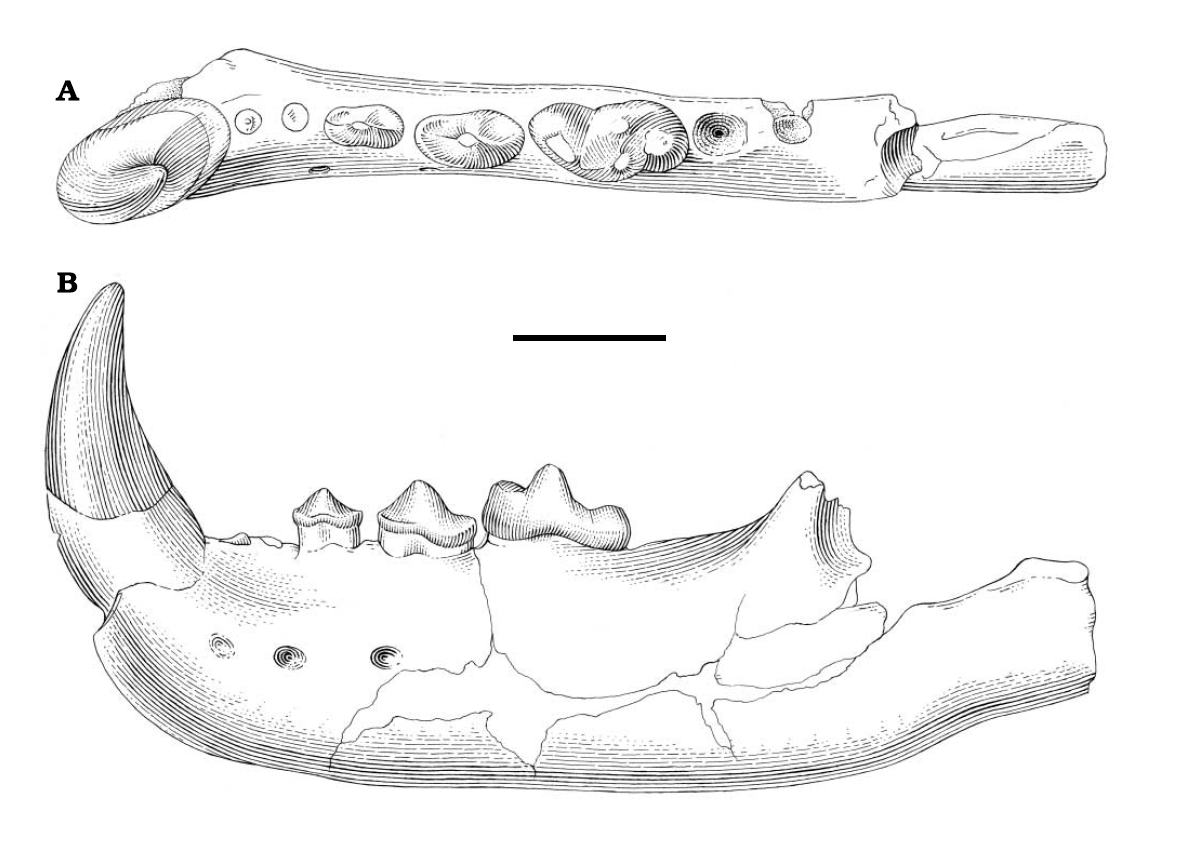 Guangxicyon sinoamericanus IVPP V11818−1, line drawings of the left lower jaw with p3–m1 and alveoli for p1–2 and m2–3; in occlusal (A) and lateral (B) views. Scale bar 2 cm.